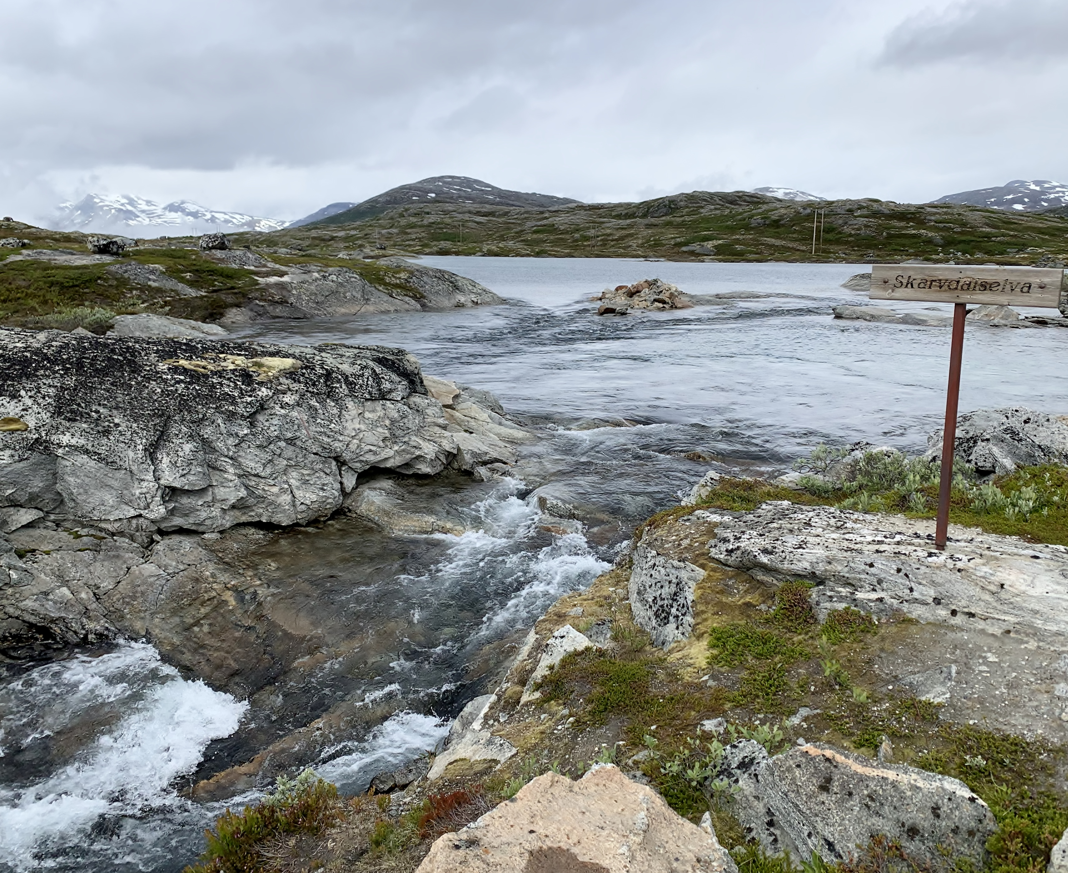 Skarvdalselva in Sunndalsøra